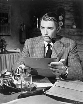 Publicity photo of taken for film The Paradine Case (1947). See also film still. No copyright notice